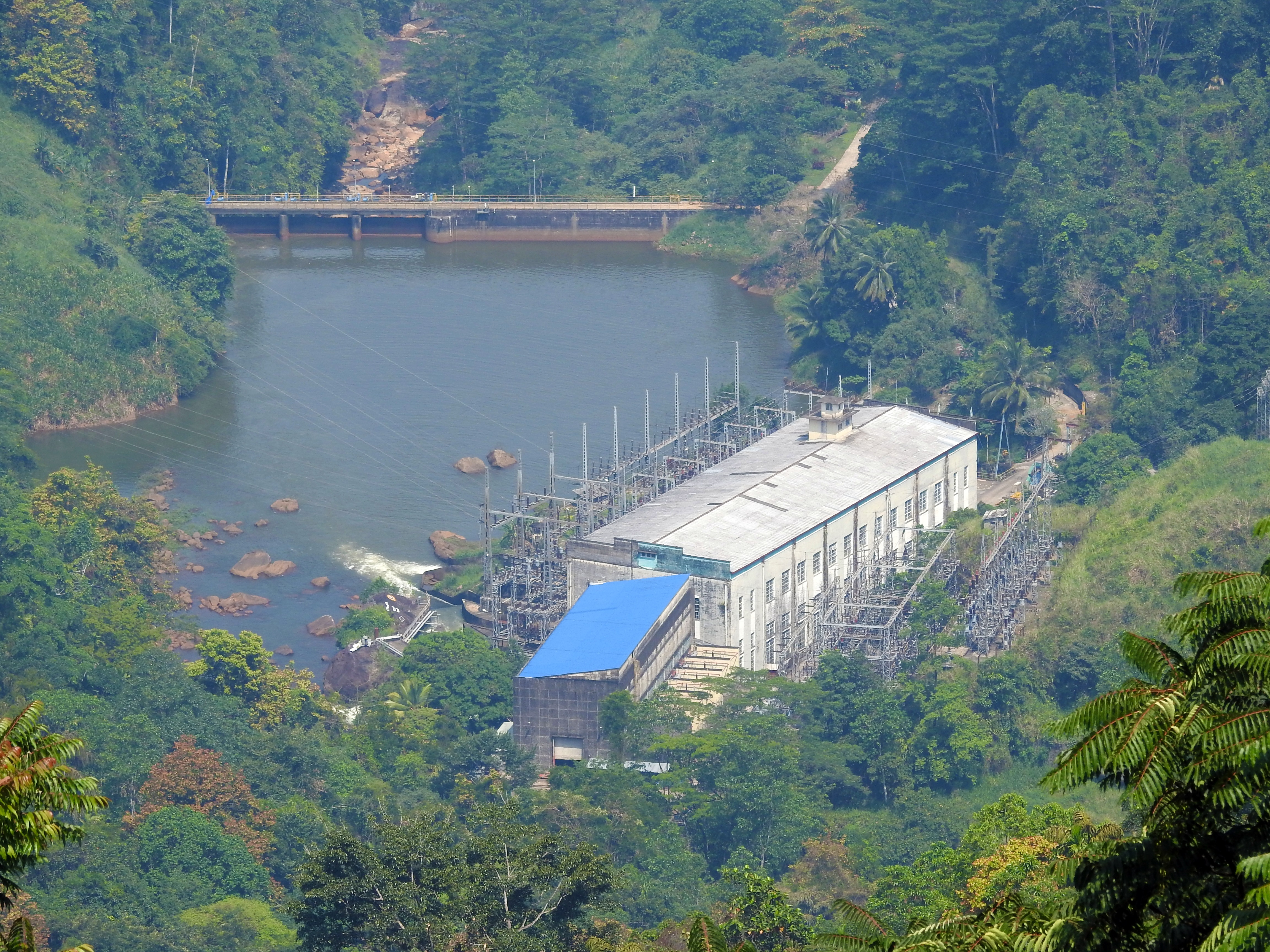 This photo was taken as part of a photo project by Wikimedia Community User Group Sri Lanka, covering current/future hydroelectric dams (and its surroundings) in the Central and Sabaragamuwa provinces of Sri Lanka. User:Rehman handled the photography, while User:Azeez and User:PasinduBR handled the logistics/planning of routes. Description of photo: Laxapana Dam, Old Laxapana Power Station (while building), and the New Laxapana Power Station (blue roofed building), as seen from near Kiriwan Eliya. Further information on the subject(s) of the photograph can be found in the category/ies of this file.